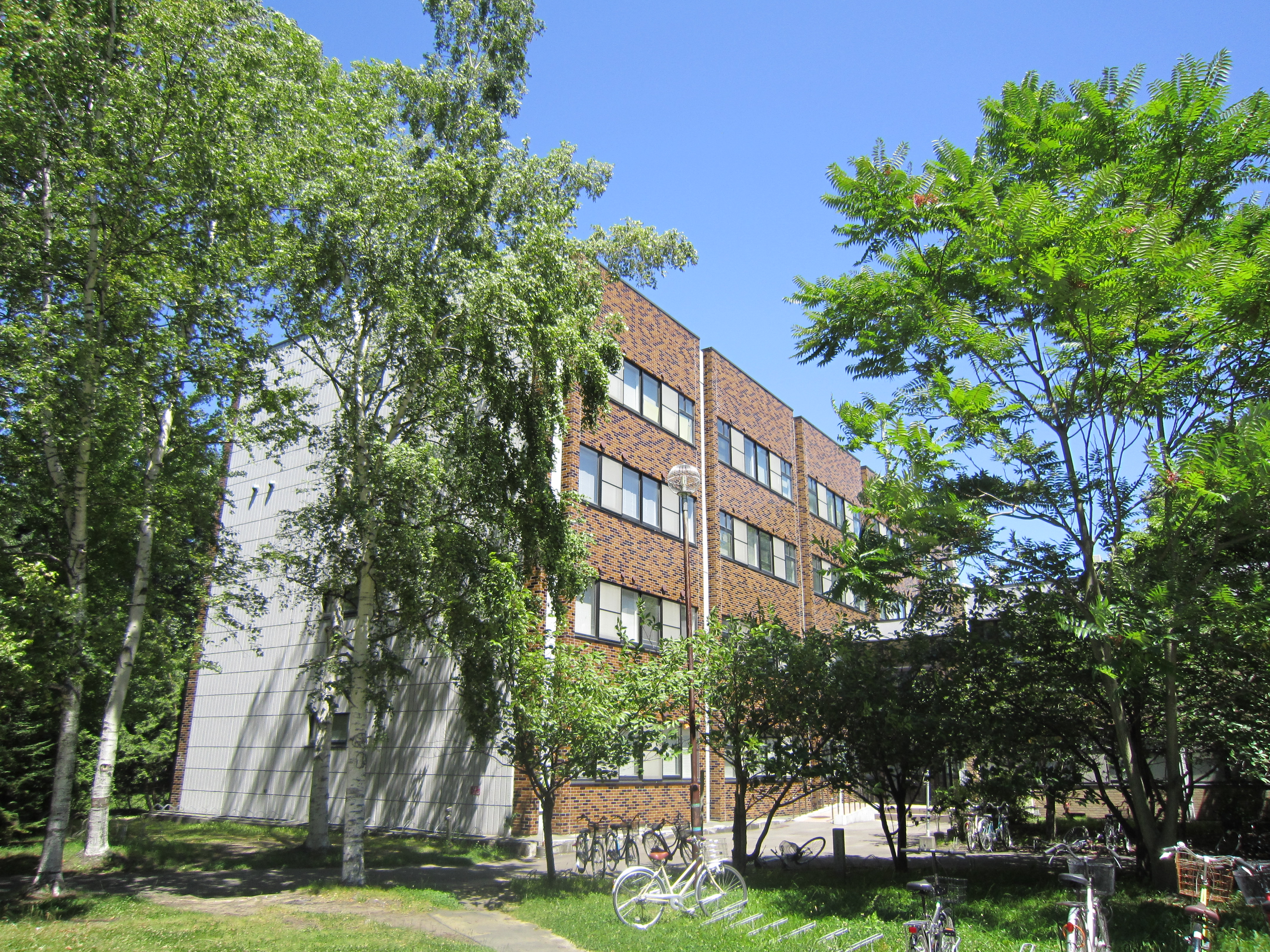 Hokkaido University School of Education